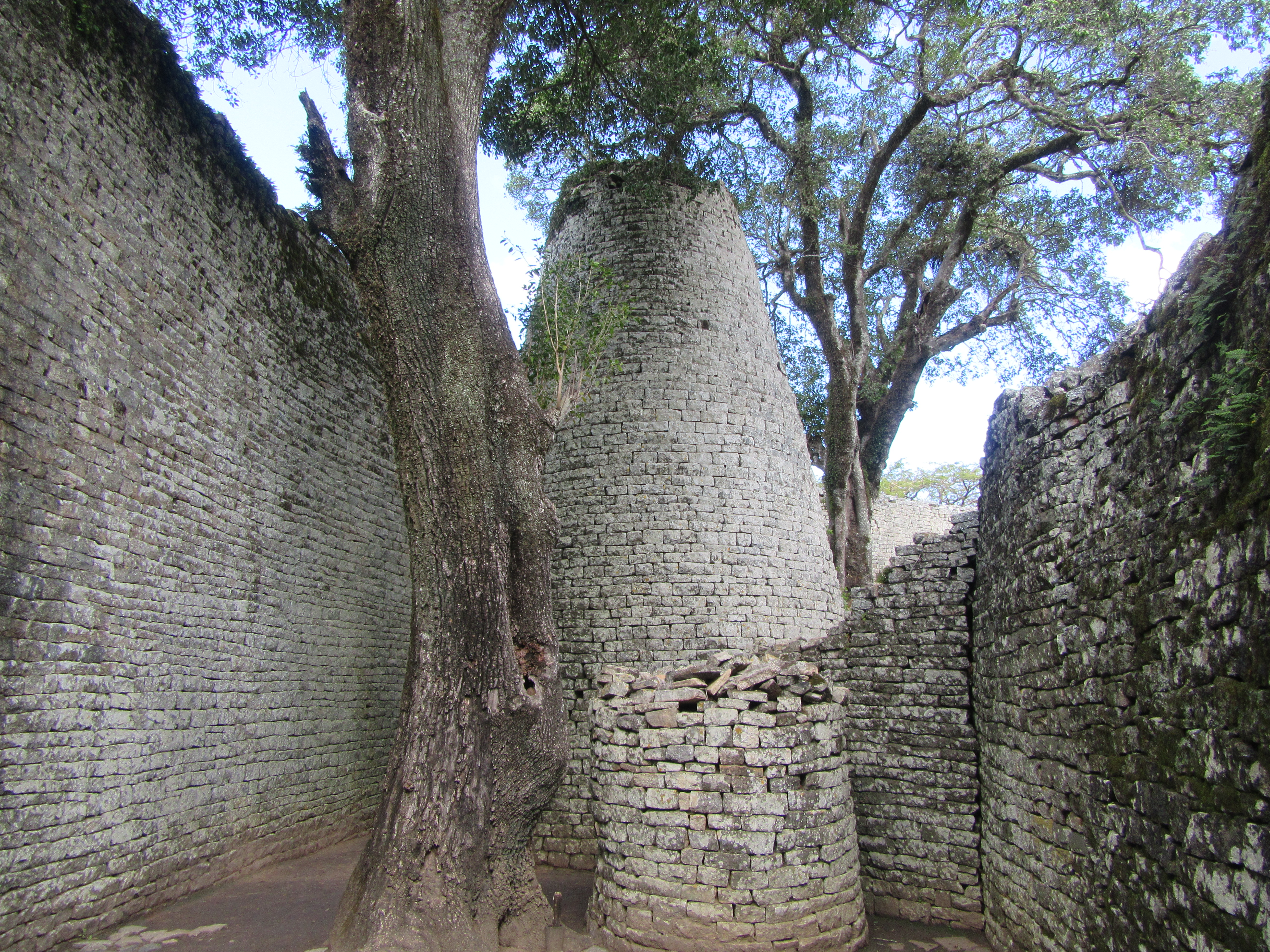 Huge conical tower now 7 meters shorter destryoed by treasure hunters Great Zimbabwe.